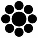 Family crest (mon) of the Kanamaru clan.